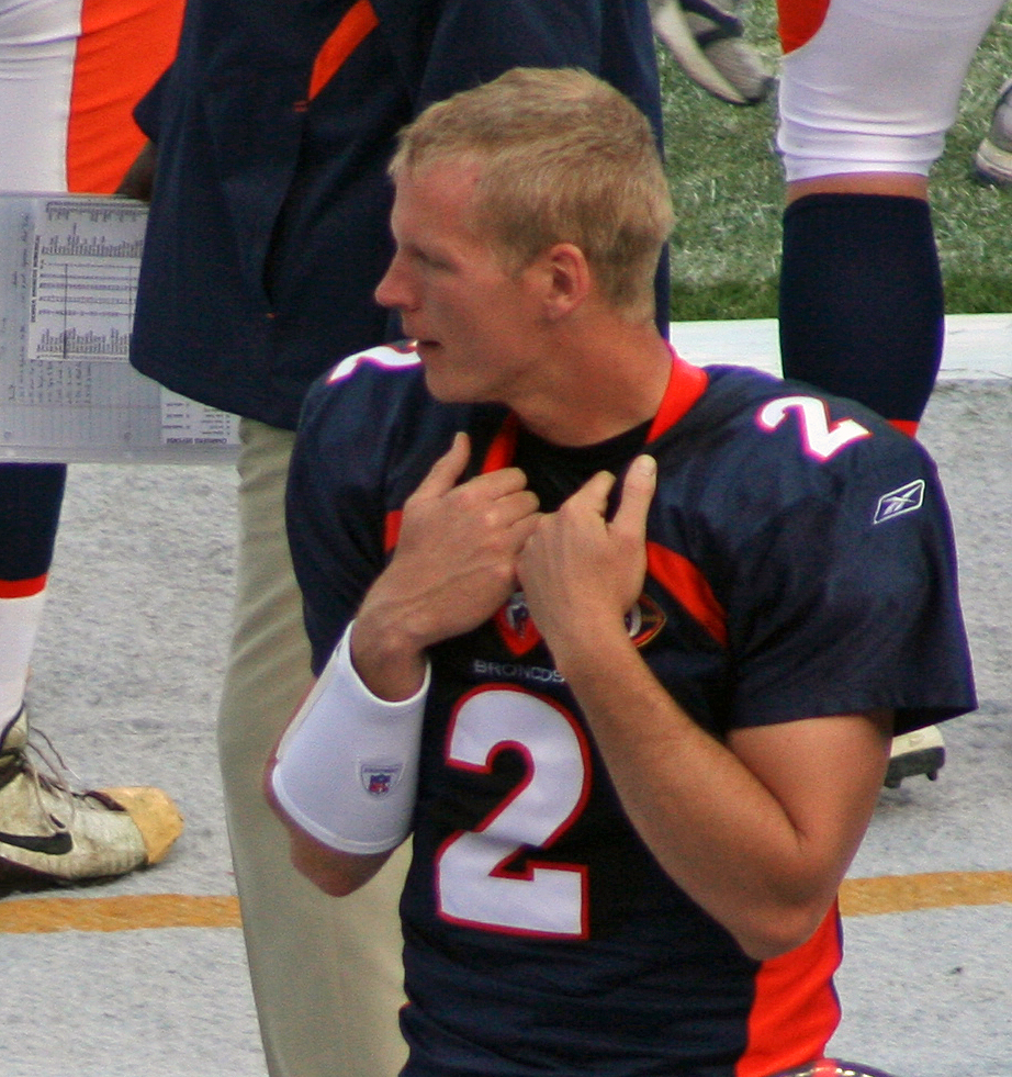 Chris Simms, a player with the Denver Broncos American football team.